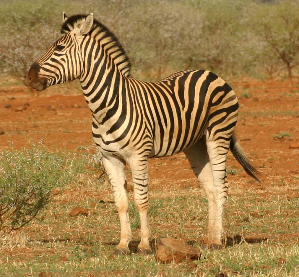 A zebra in the Madikwe Game Reserve (crop of Image:Zebra standing alone.jpg)